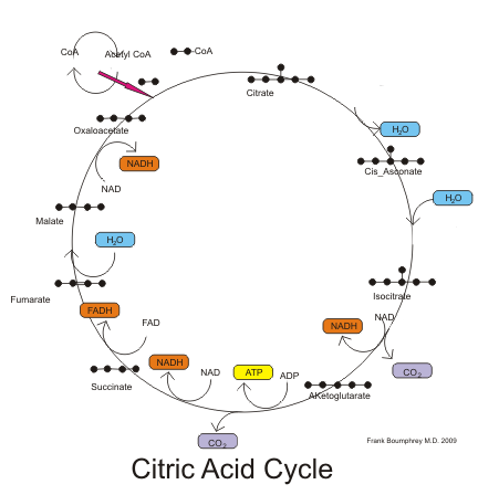 Citric Acid Cycle pathways